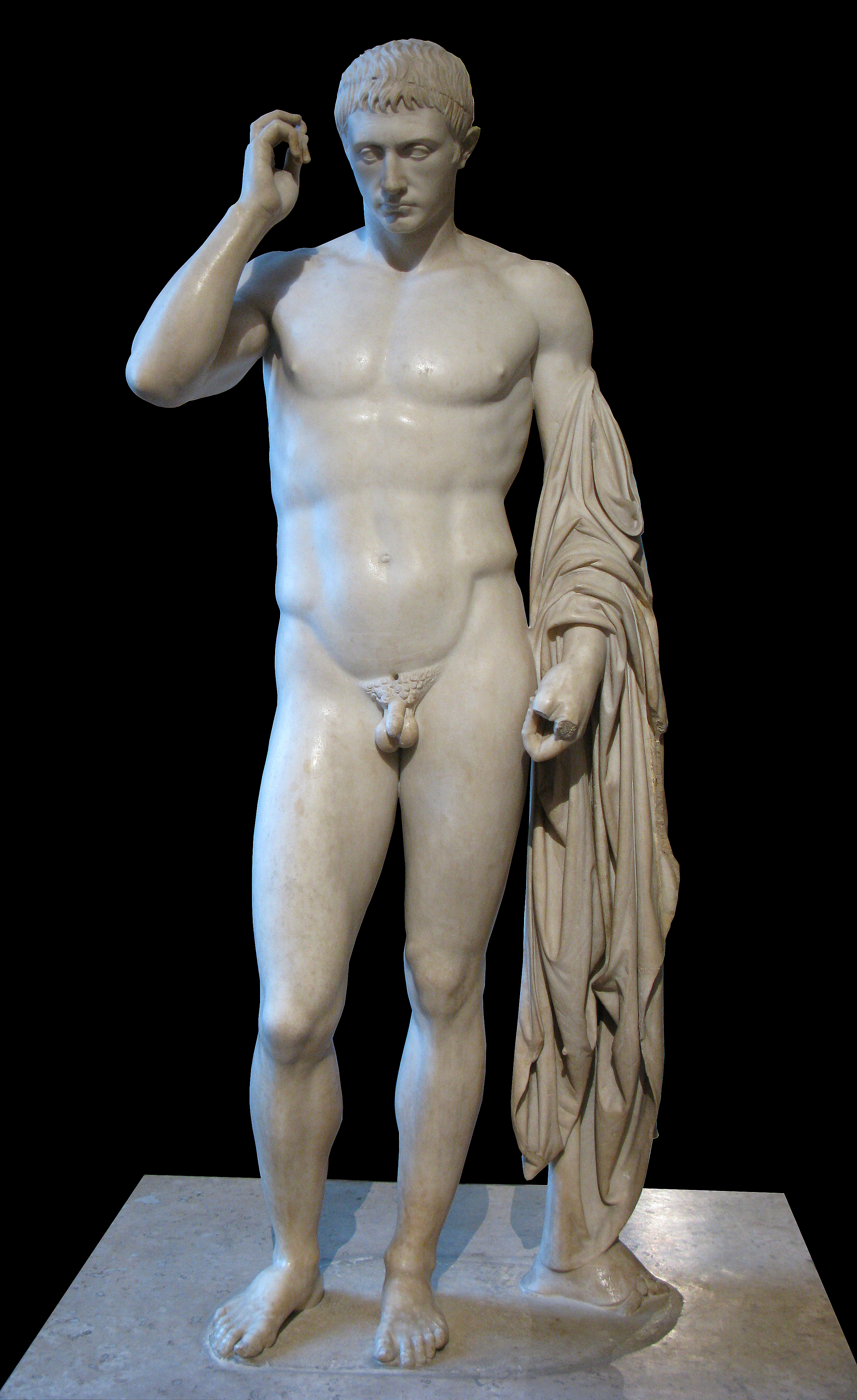 Statue of Marcellus, formerly known as “Germanicus”, of the Hermes Ludovisi type. Greek marble, Roman artwork of the 1st century CE, after a 5th century BCE prototype with substitution of a Roman portrait head.